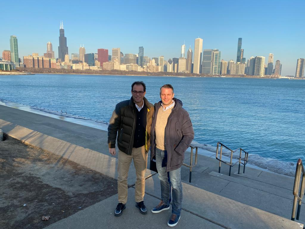 Sebastian Pelzer (Right) with Georg Heitz in Chicago